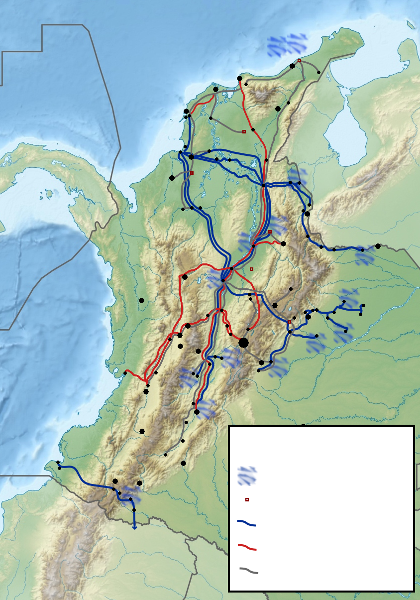 Map of the pipelines in Colombia